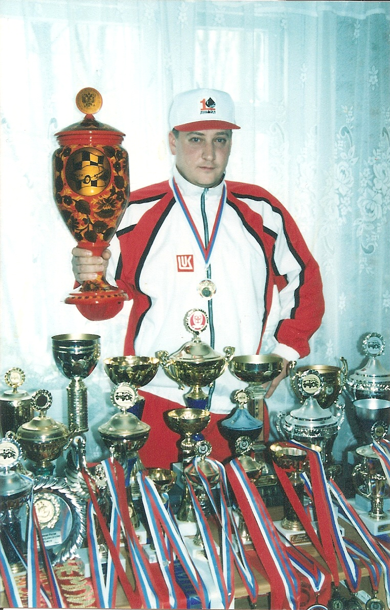 Цеханович Б.Б.